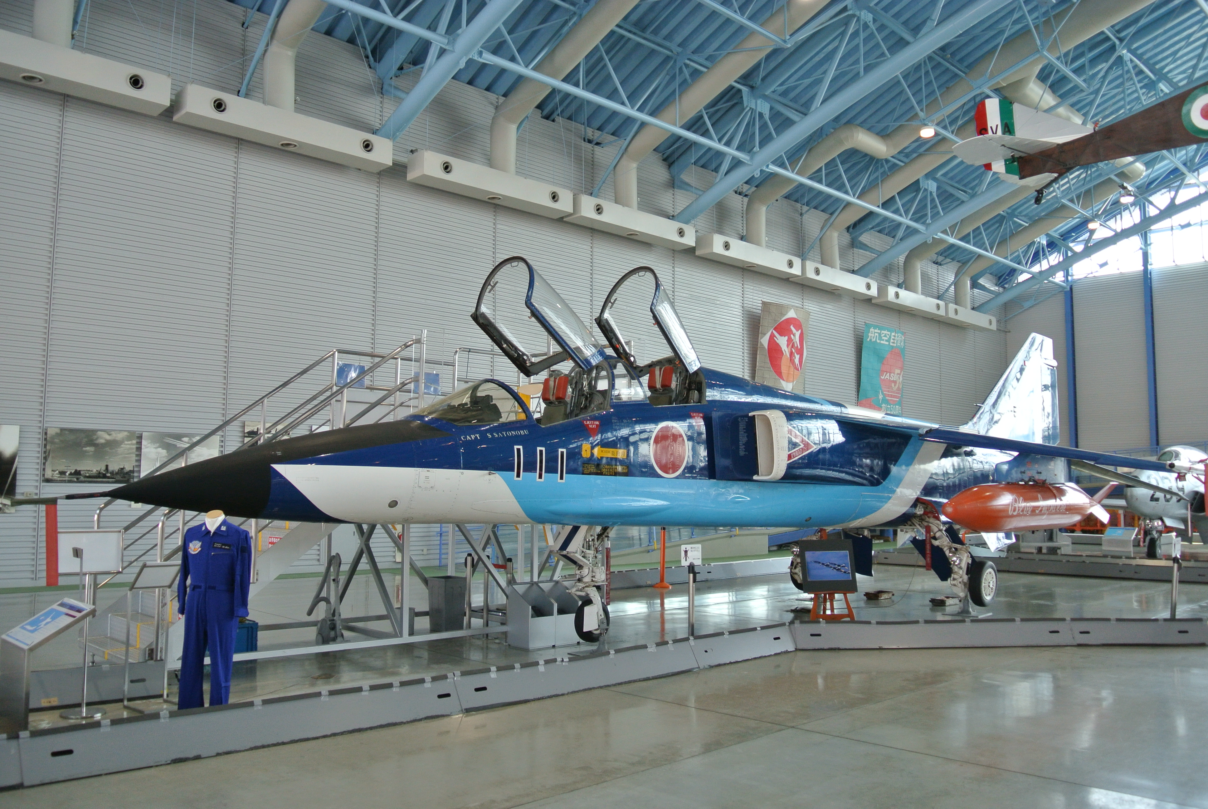 Blue Impulse T-2 in the Japan Air Self-Defense Force public relations Hamamatsu Museum.